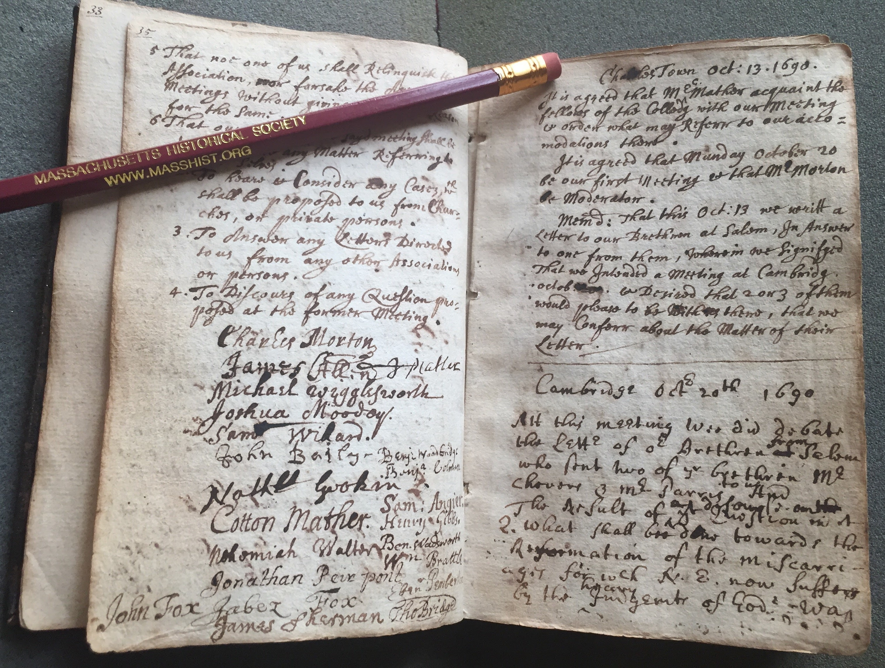 Roll of members of Cambridge Association of ministers. My photo taken with permission in reading room at MHS, Boston, MA, USA. Note, not all ministers listed here were present at first meeting. Many names were likely added to this page over the years.